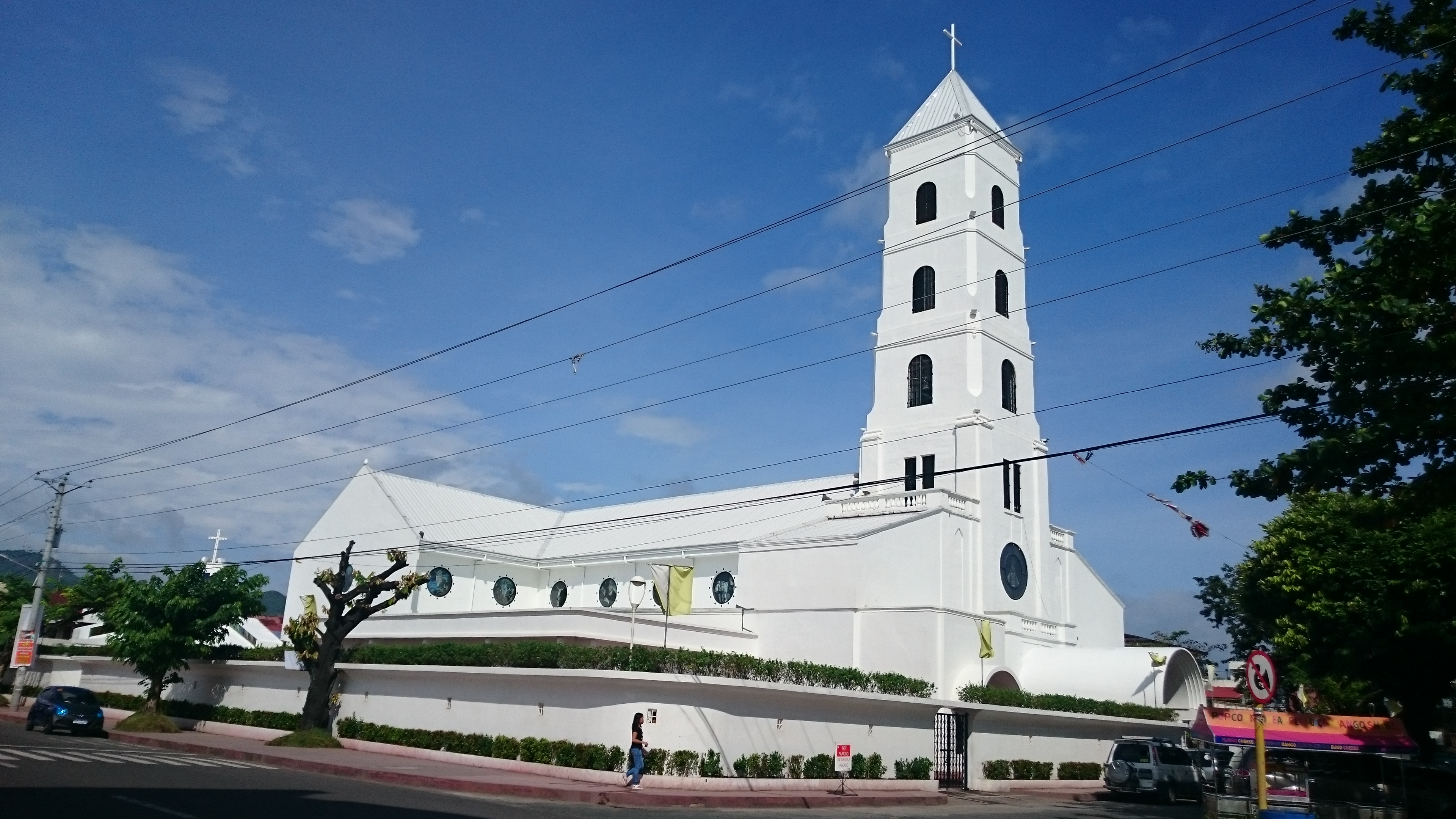 The renovated Sto. Niño Parish Church of Tacloban after it was destroyed by Typhoon Haiyan.